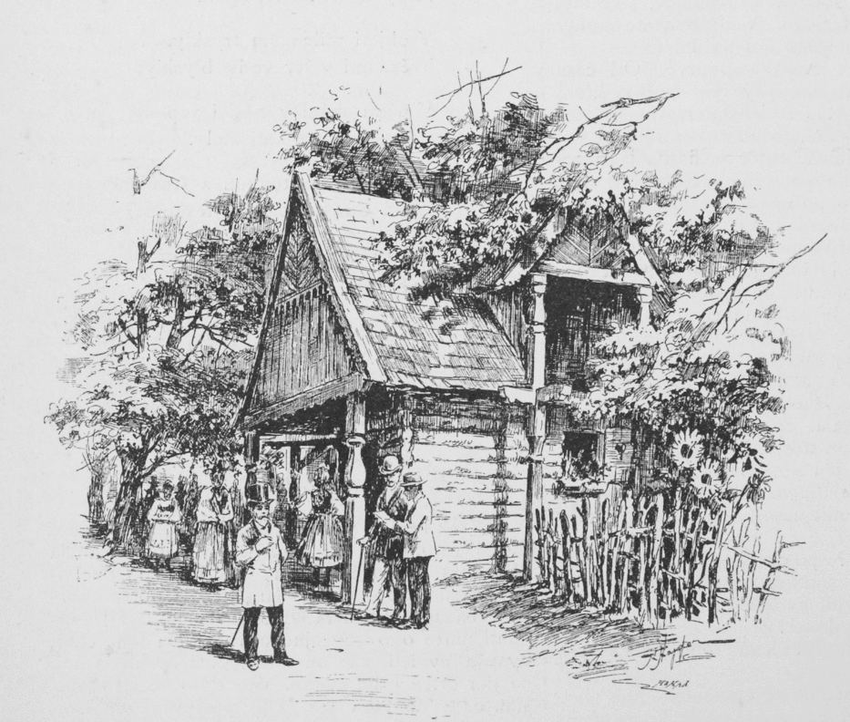 Czech farmhouse, exhibited at a Slavonic Fair on Žofín Island in Prague.